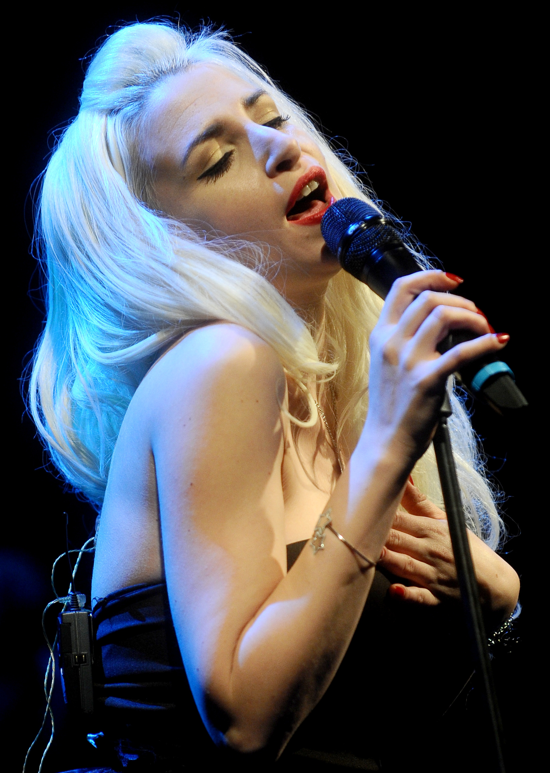 Romina Falconi singing at Teatro del Giglio at Lucca Comics & Games 2015